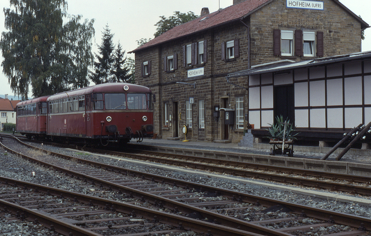 796 825 and trailer 996 740 are seen at Hofheim (Unterfr) on 26 September prior to departure on train 7871, 12:40 Hofheim (Unterfr) to Haßfurt.